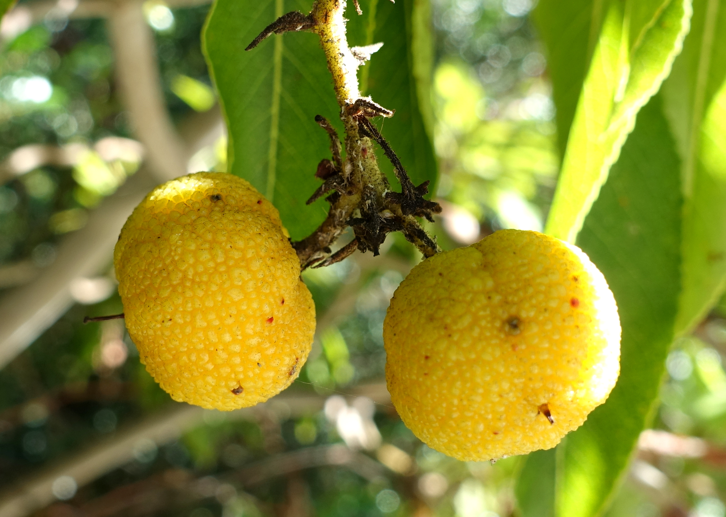 Botanical specimen in the Jardín Botánico de Barcelona - Barcelona, Spain.